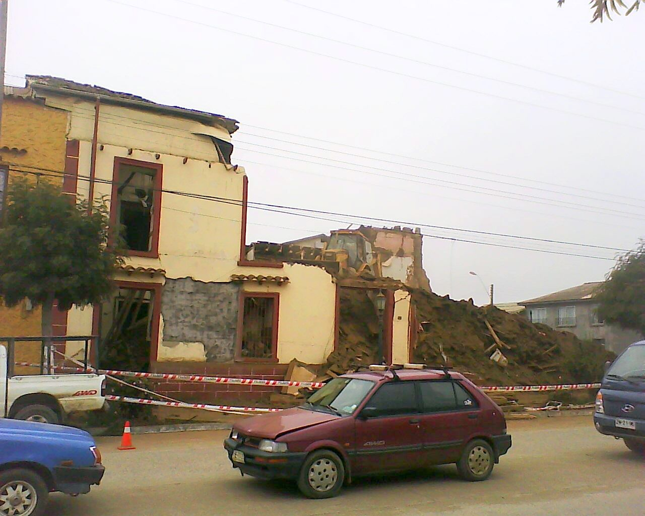 Demolition process of Pichilemu's post office in July 3, 2010